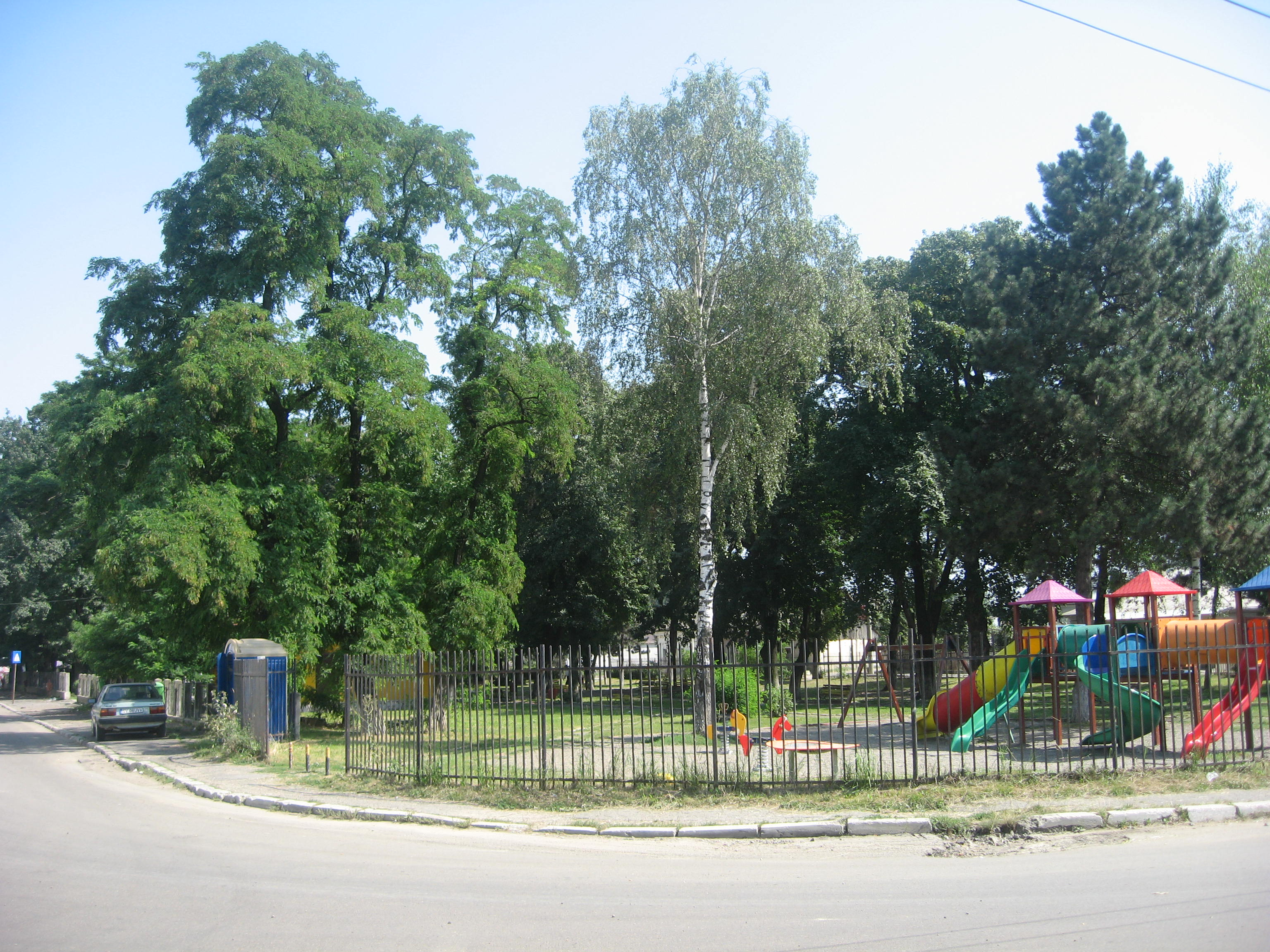 Iţcani Station Park in Suceava.